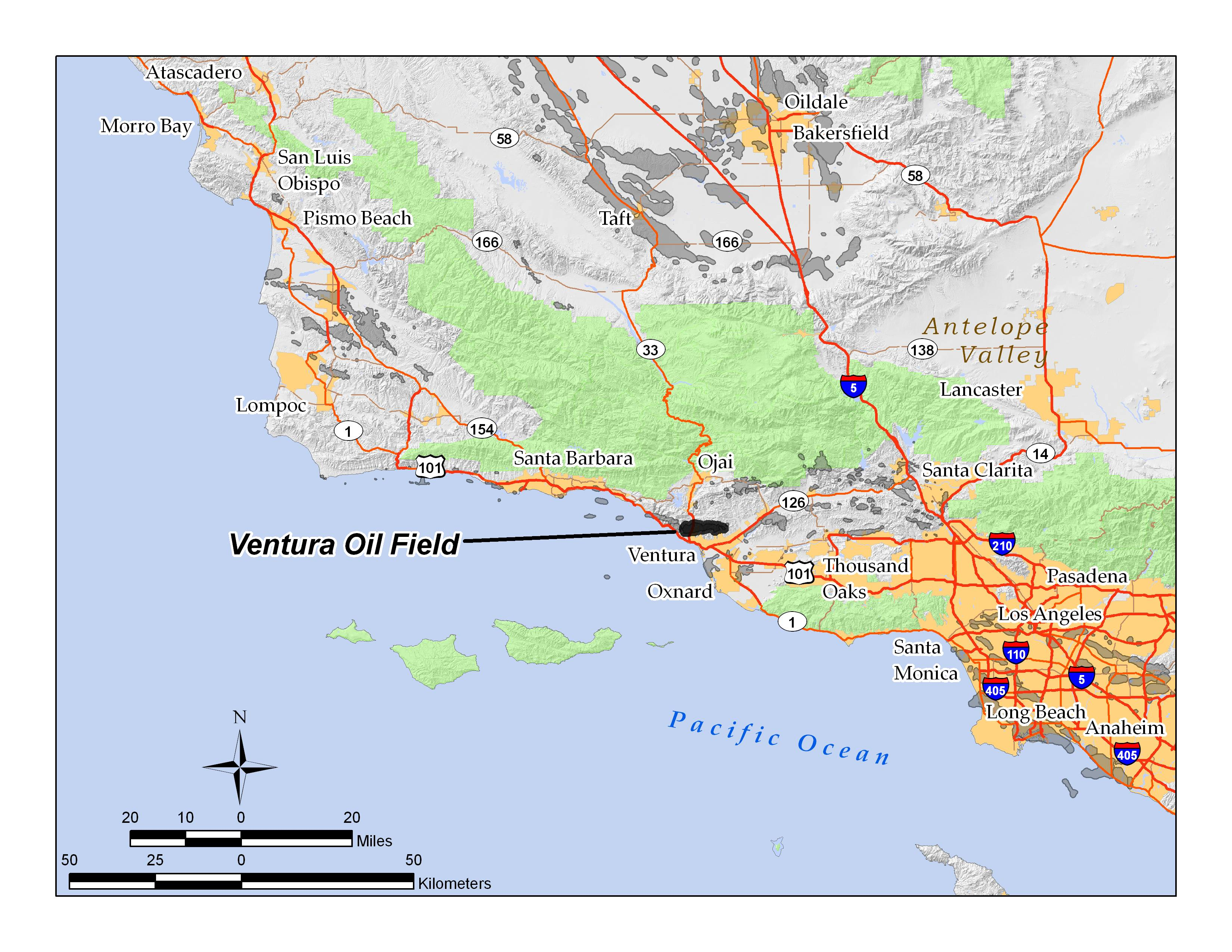 Location of Ventura Oil Field; by self in ArcGIS 9.3; all source data in public domain